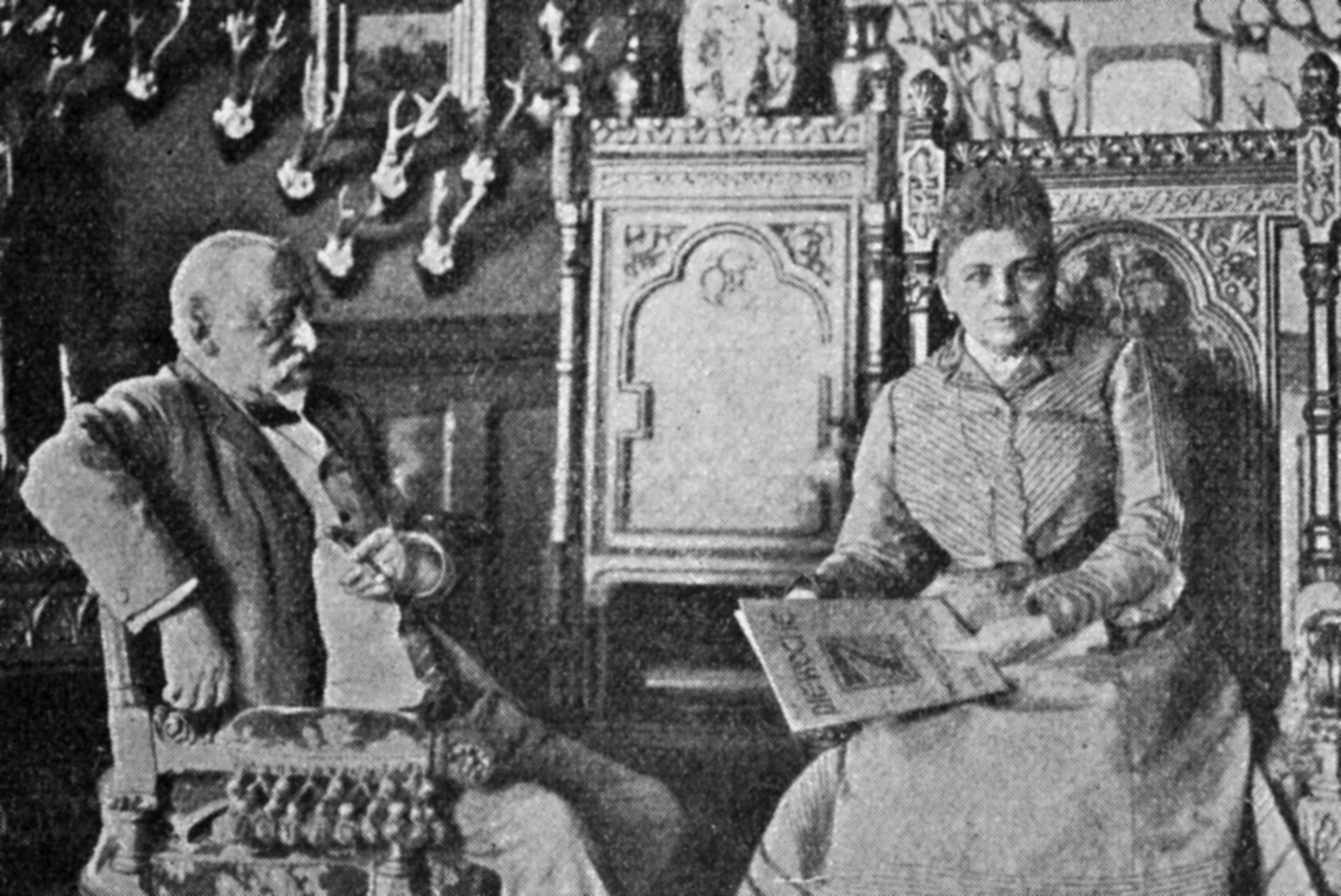 Detail of a photograph in the german boulevard magazine Die Woche showing Duchess Johanna Schaffgotsch with the magazine Die Woche in her hand.